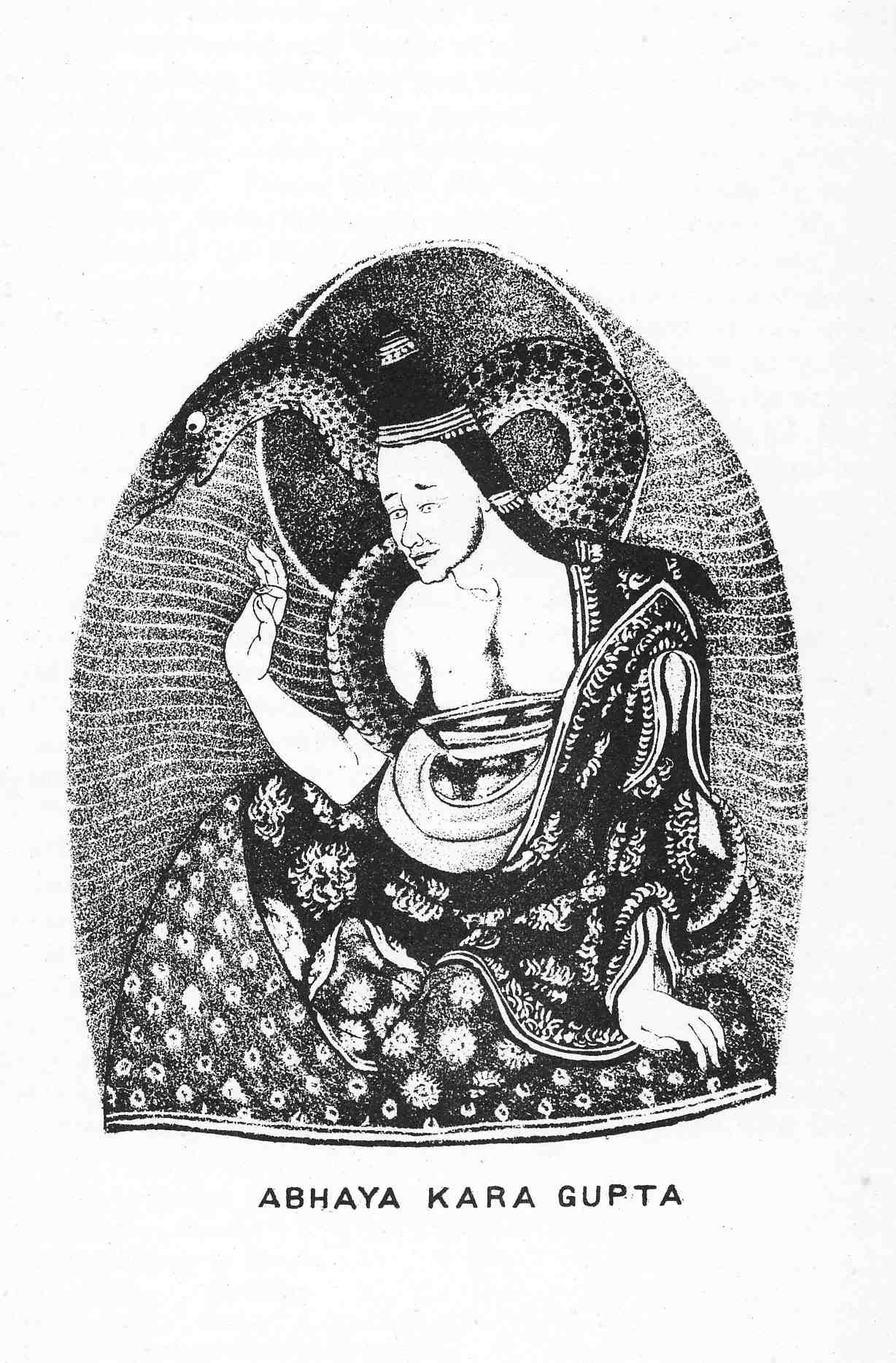 Image taken from Sarat Chandra Das' "The Lives of the Panchhen—Rinpoches or Tas'i Lamas", The Journal of the Asiatic Society of Bengal, Vol. LI (1882)